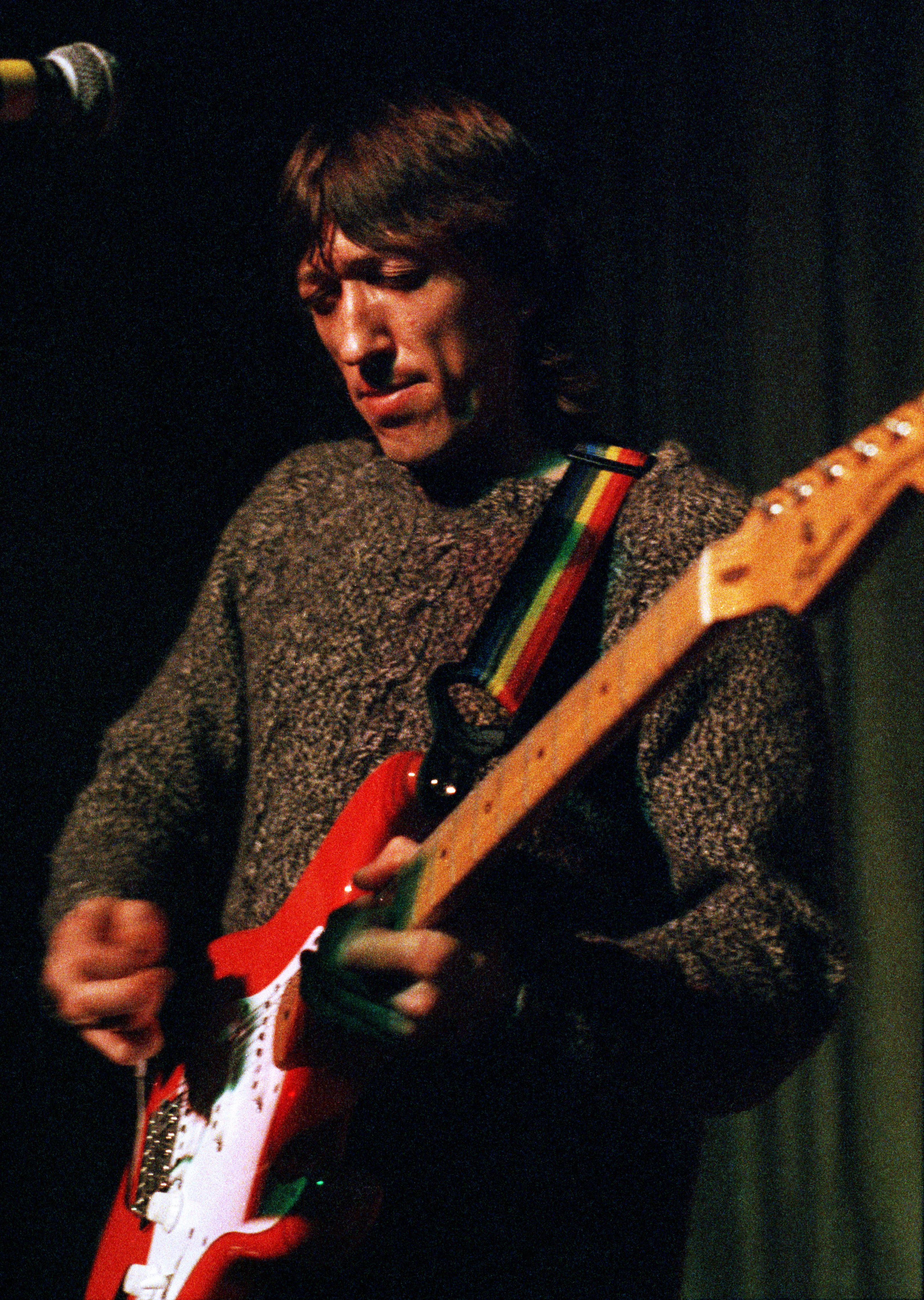 Welsh musician Tich Gwilym (Robert Gilliam) performing in Aberystwyth, November 1985